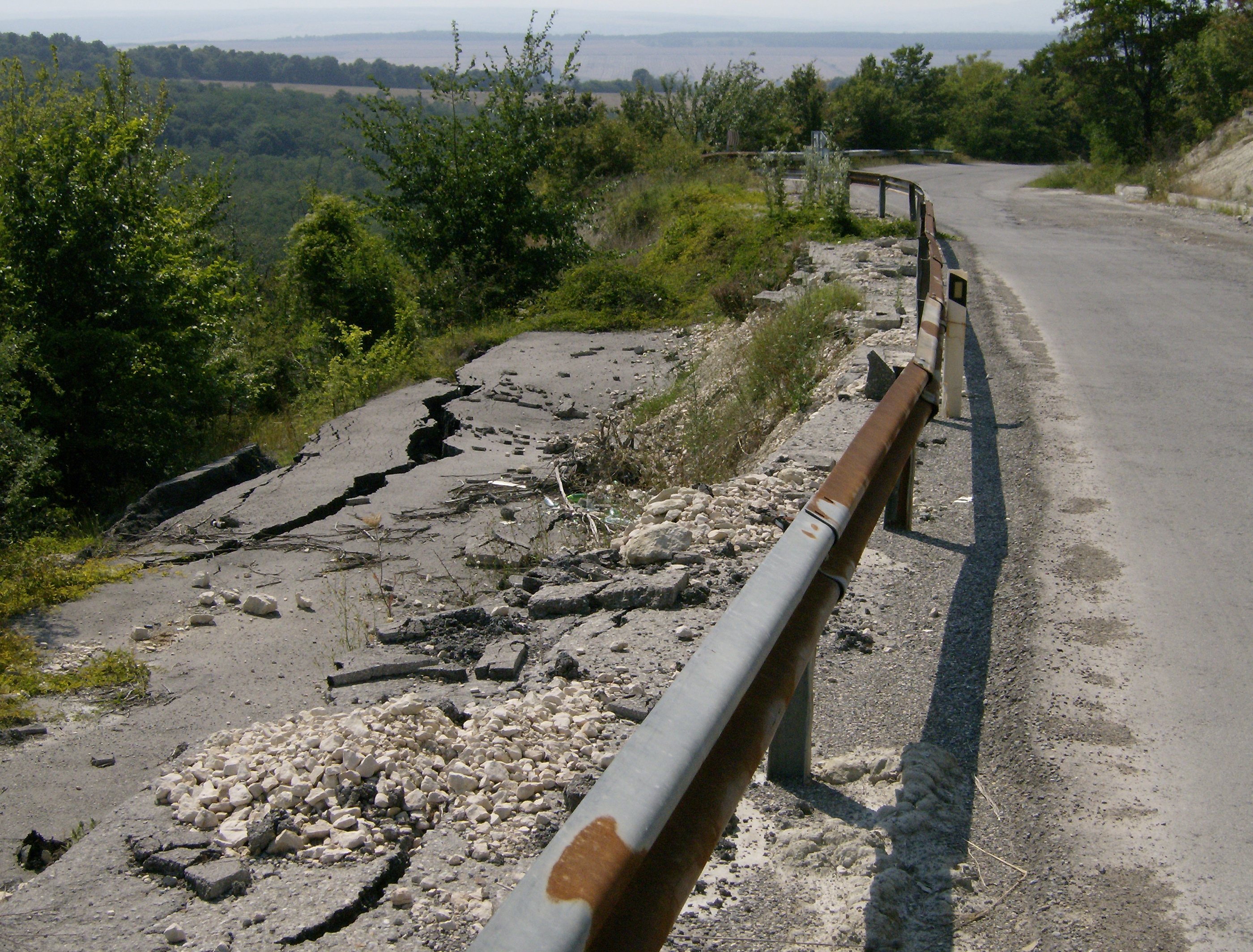 Svlichane